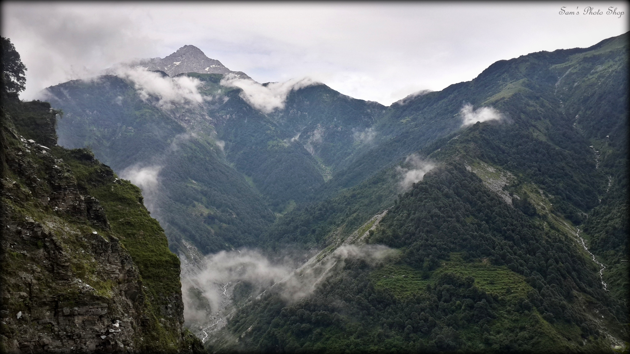 View from Trans Point, Khadota, a local sight seeing spot at Khaniyara, Dharamsala